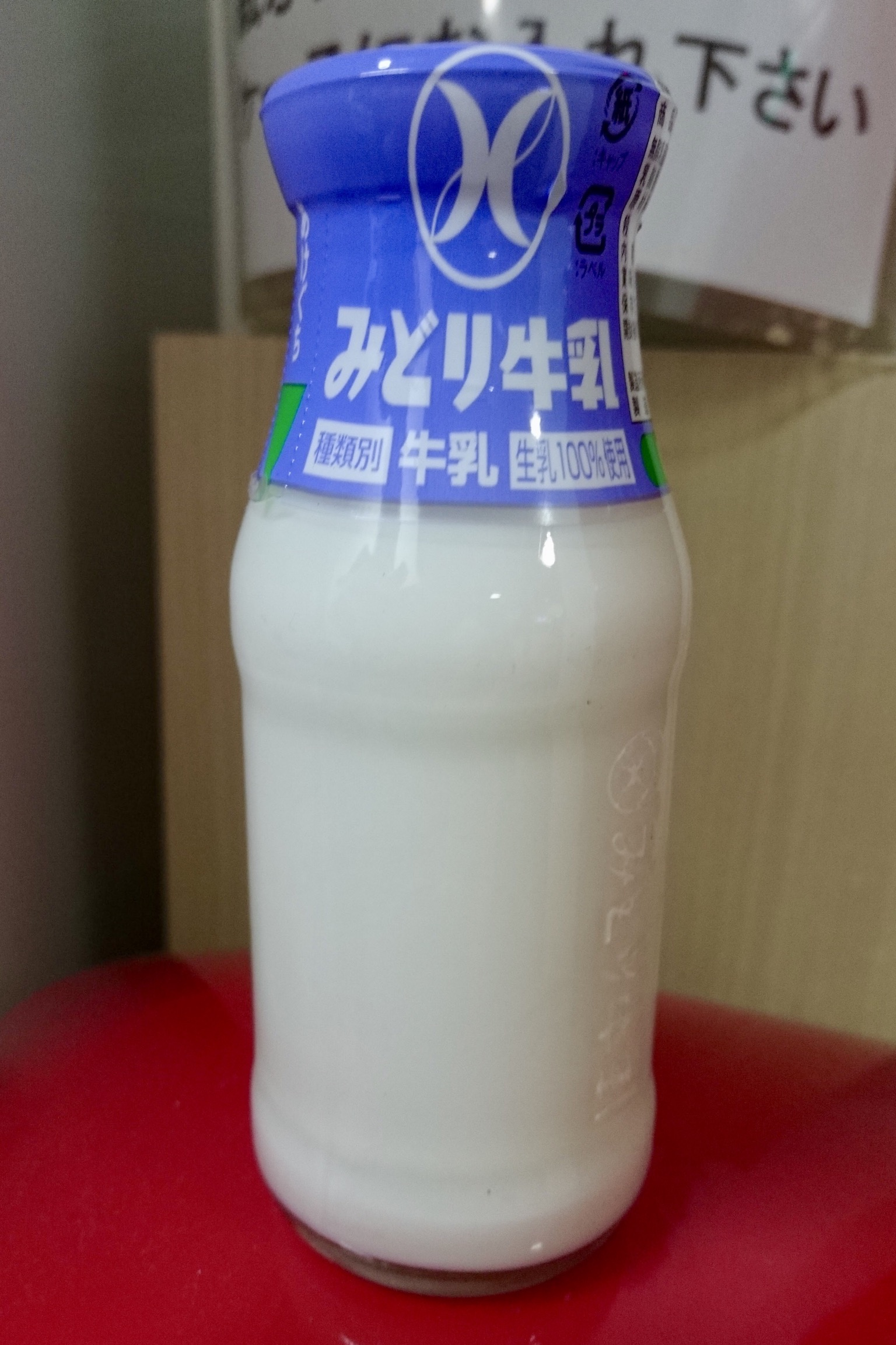 Midori milk(Kyushu-milk company)